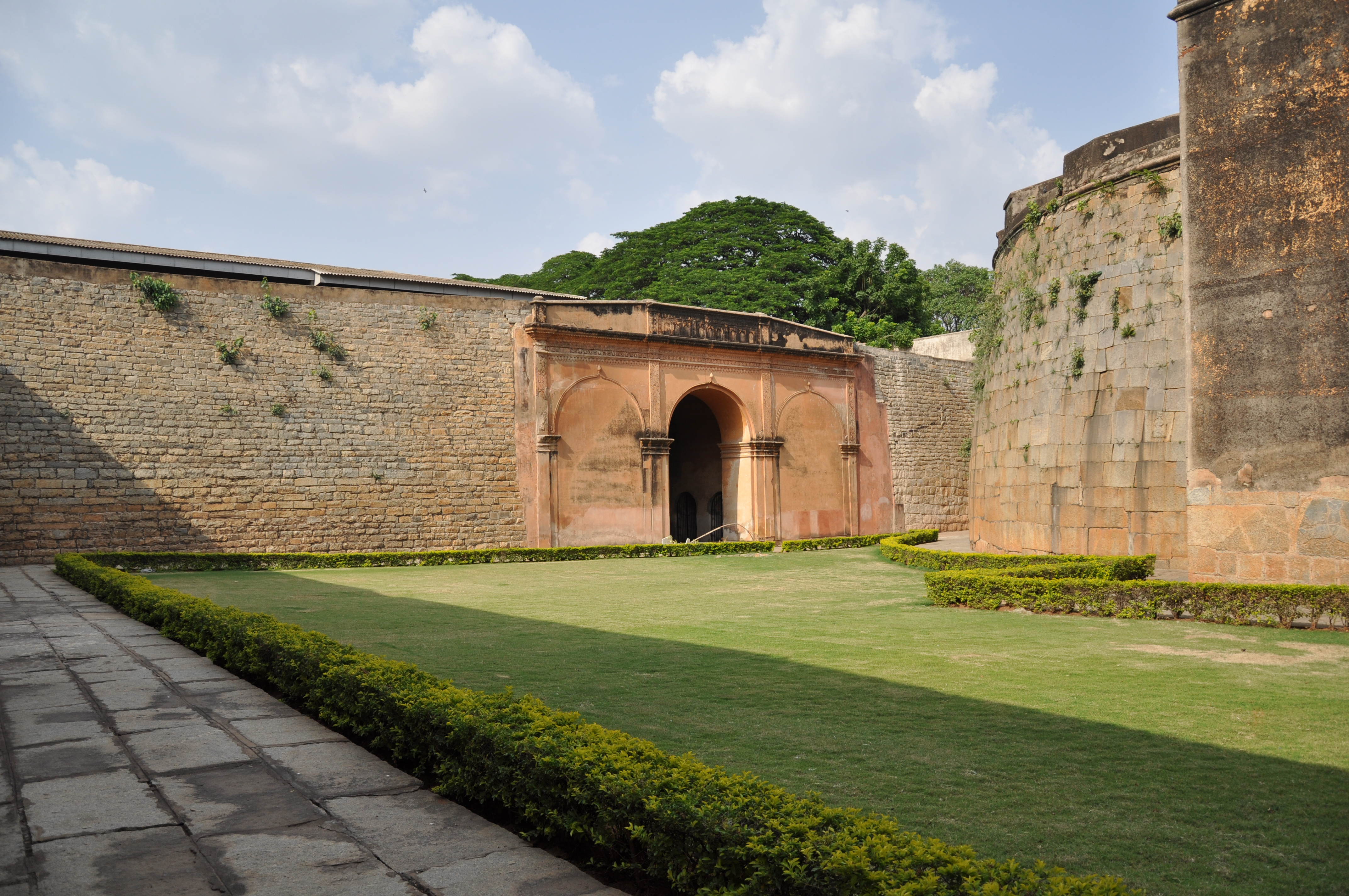 Old Dungeon Fort & Gates